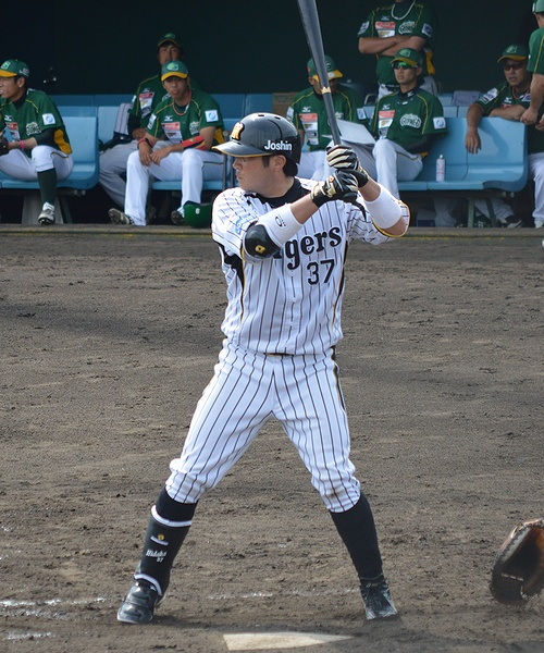 HT-Tsuyoshi-Hidaka20130605